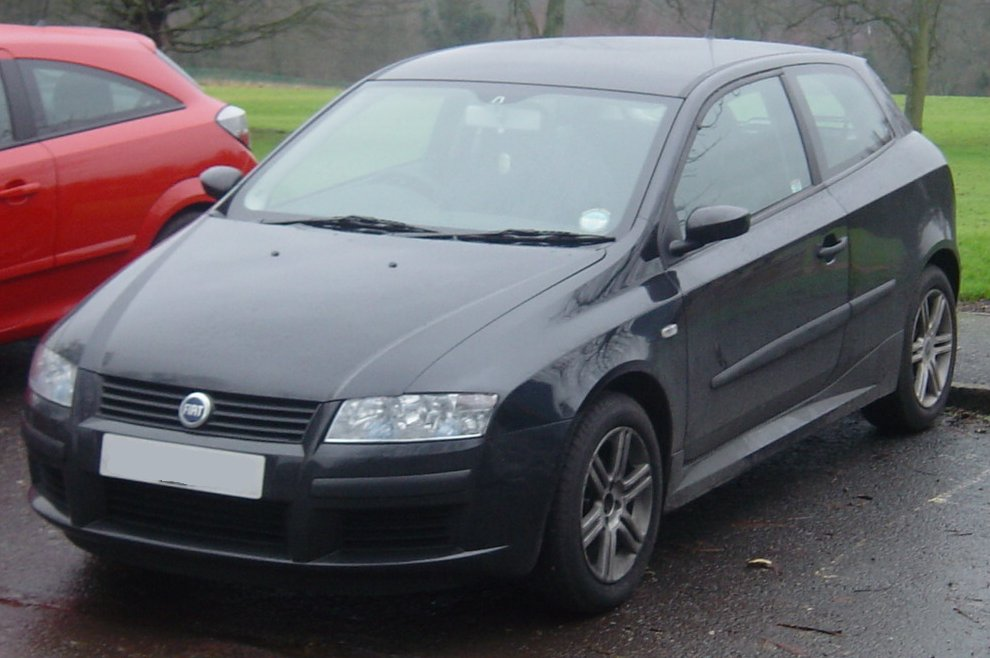 created by Mazurka